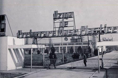 Entrance to the plastic factory in Buzău, Romania